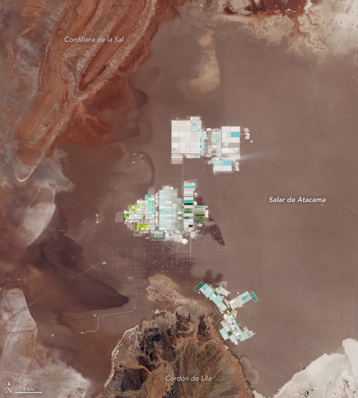 With the International Energy Agency forecasting that the number of electric motor vehicles will skyrocket from about 3 million in 2018 to 125 million by 2030, it is a good bet that more of these vividly colored evaporation ponds will dot deserts in South America in the future. That’s because they are a key source of lithium. Makers of electric vehicles, laptops, cell phones, and other gadgets rely heavily on lithium for rechargeable batteries. Lithium is also used in ceramics, glass, industrial grease, and medication. With 29 percent of the world’s reserves, Chile’s Salar de Atacama—an enclosed basin with no drainage outlets—is the world’s largest source of lithium. Nearby areas in Bolivia and Argentina also have large reserves. While the surface of the salar (Spanish for salt flat) is almost always dry, a large reserve of lithium-rich brine lurks below the surface of the ancient sea bed. A combination of snowmelt from nearby mountains and hydrothermal fluids associated with volcanic activity naturally replenishes the aquifer. Companies pump brine to the surface and shunt it through a network of canals to shallow evaporation ponds lined with plastic. Then the region’s relentlessly dry, sunny, and windy weather evaporates the brine and leaves behind deposits of lithium and other salts. Tanker trucks carry concentrated lithium to processing facilities near the port city of Antofagasta.